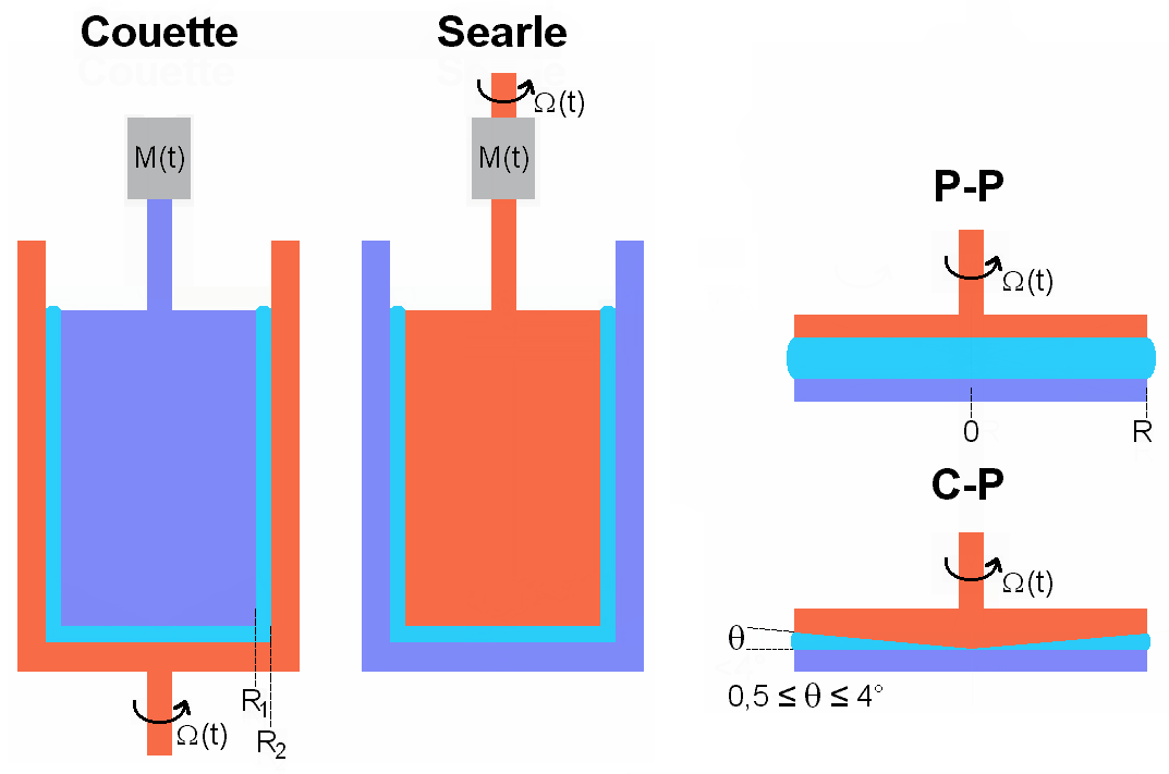 Rotational rheometers: Couette, Searle, plate-plate (P-P) and cone-plate (C-P) types.